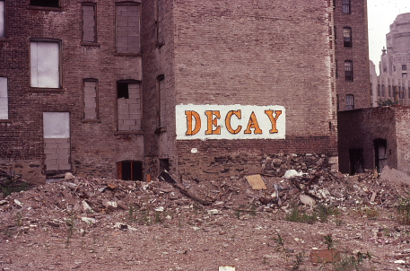 Decay, John Charlotte Street, New York, John Fekner, August, 1980.